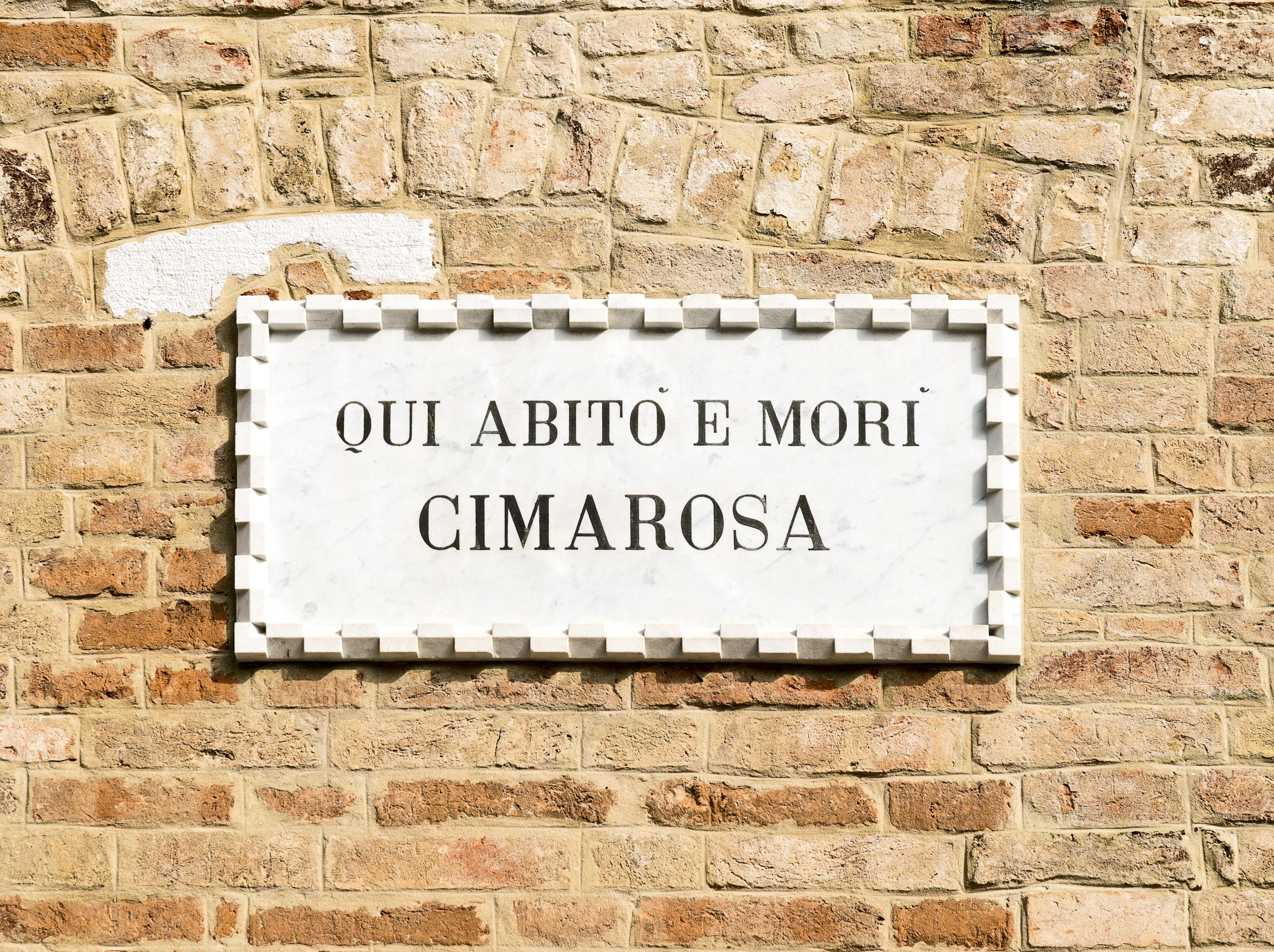 Palazzo Duodo Venice. Facade on Campo Sant’Angello. Plaque to Domenico Cimarosa.